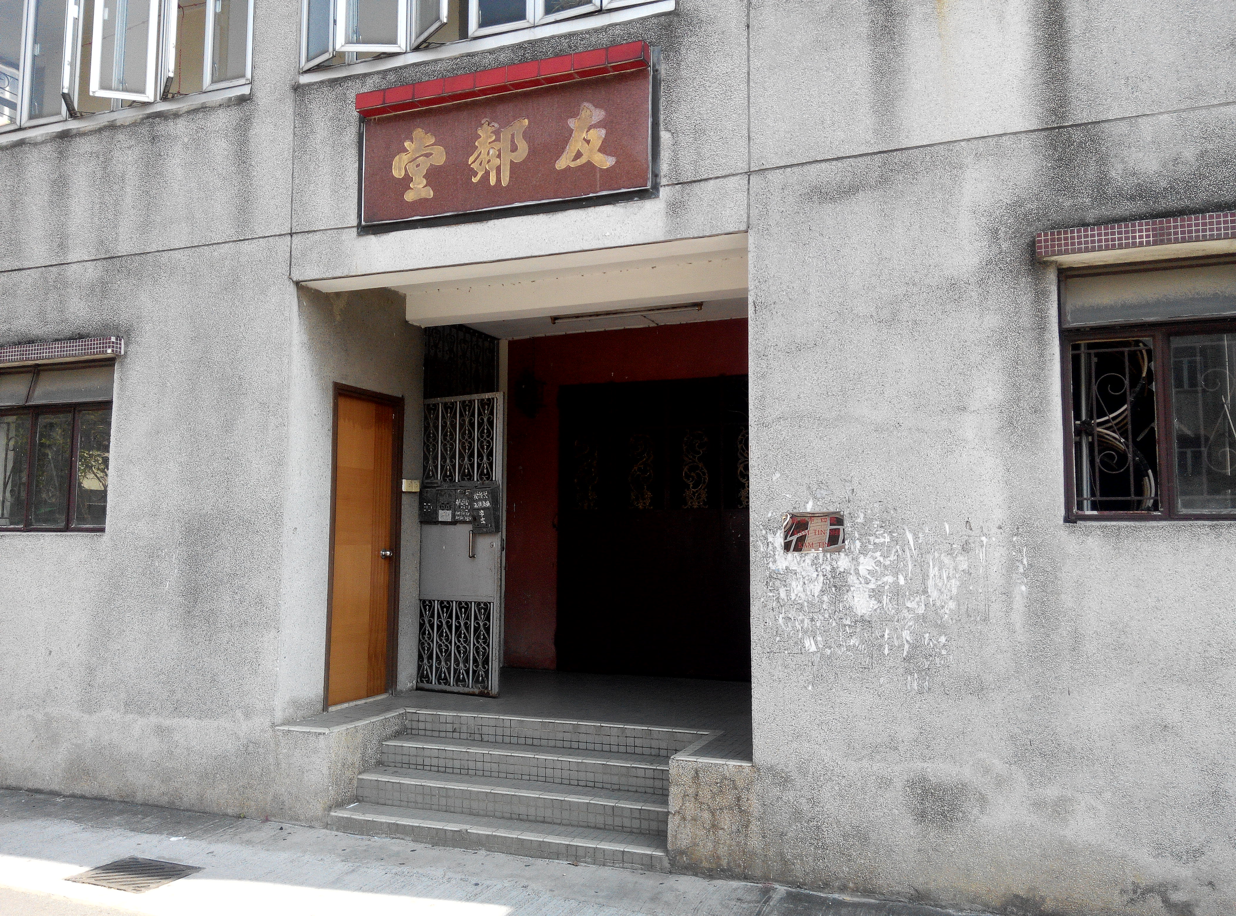 KamTin, Yau Lun Tong